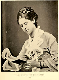 Young aristocratic Selma von der Gröben in a reading pose